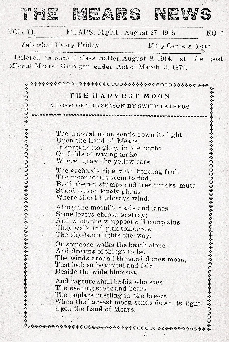 "The Harvest Moon" typical poem by Swift Lathers (from The Mears News Vol II, No. 6 of August 27, 1915)